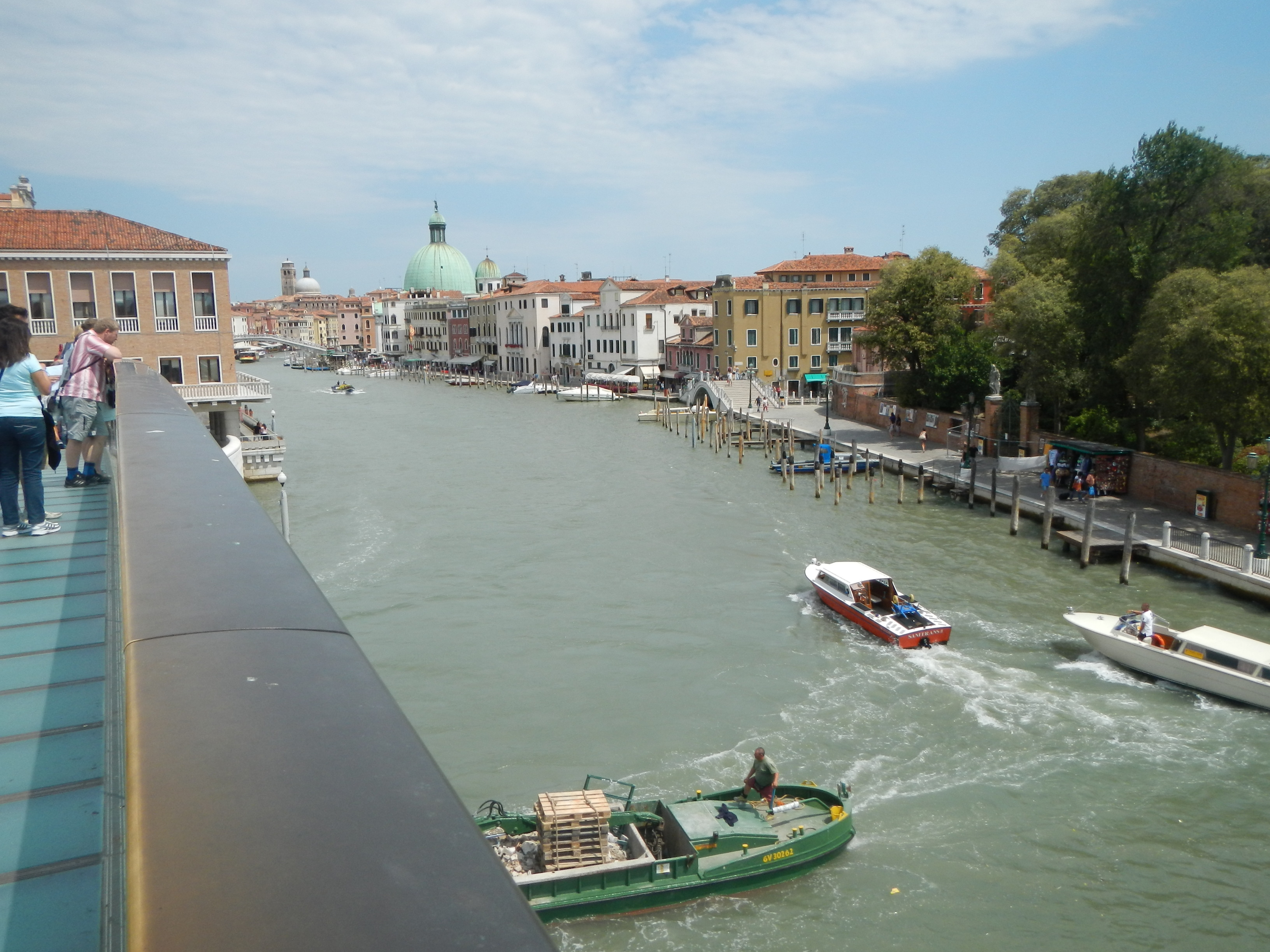 Venezia Italia